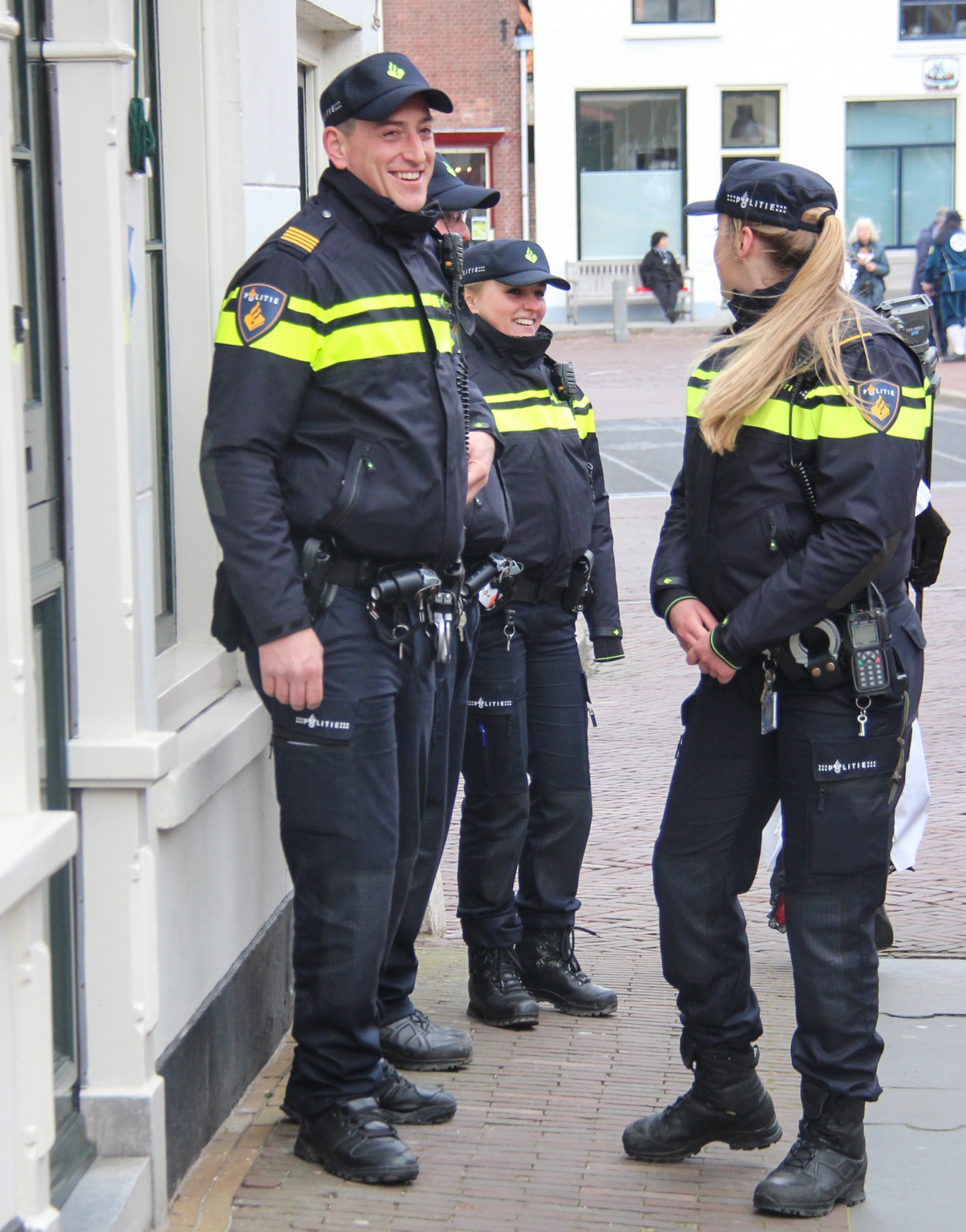 Police during april 1 event in Brielle